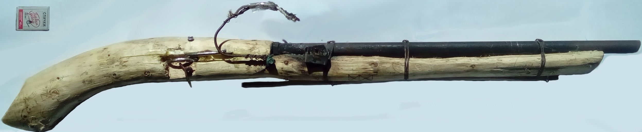 My handmade muzzleloader matchlock arquebus. I puts the matchbox for compare it's real sizes.